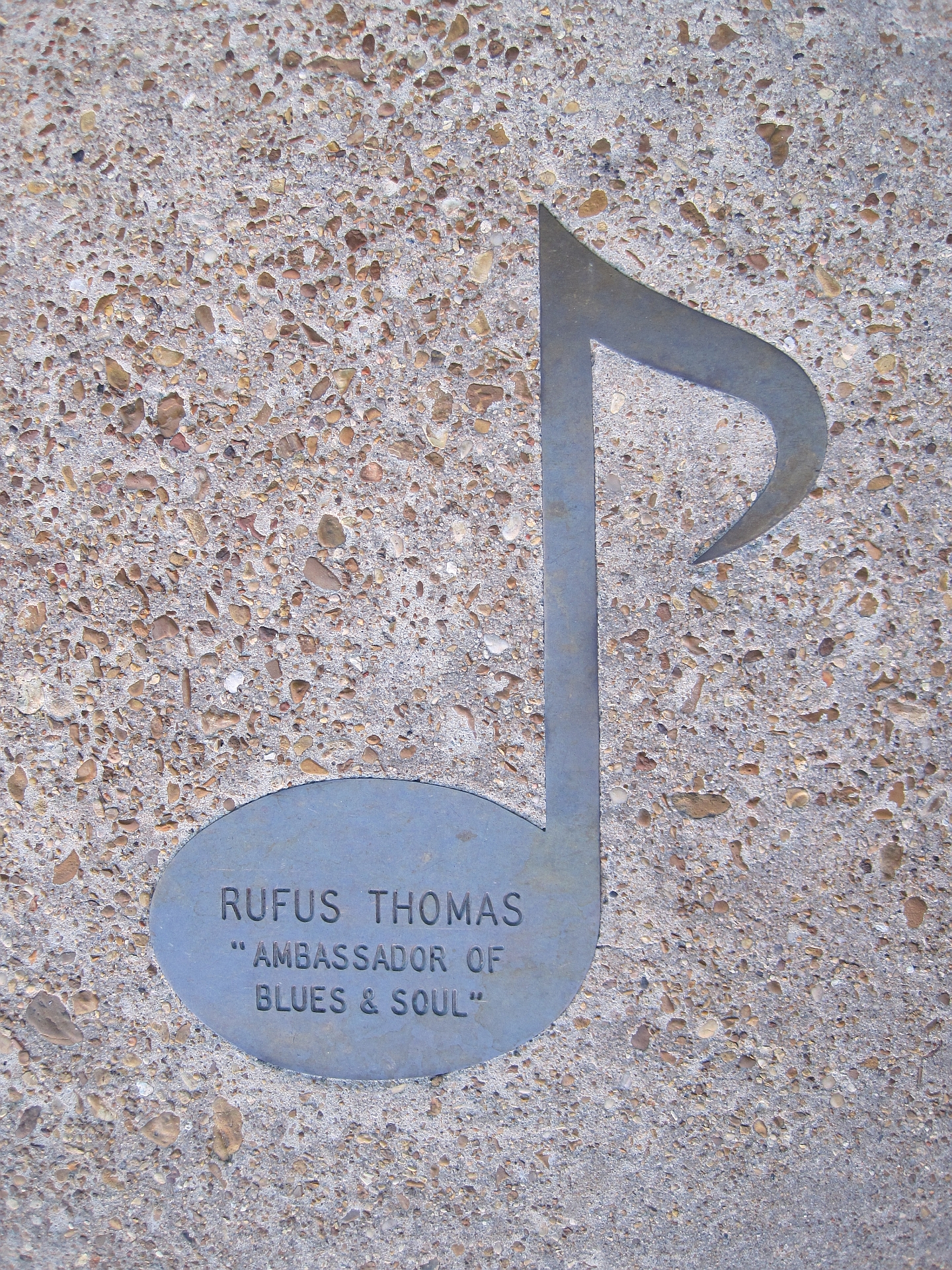 Memphis, Tennessee. Walk of Fame (Beale Street, Memphis) Rufus Thomas